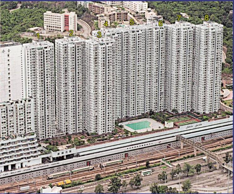 Jubilee Garden Shatin bird view